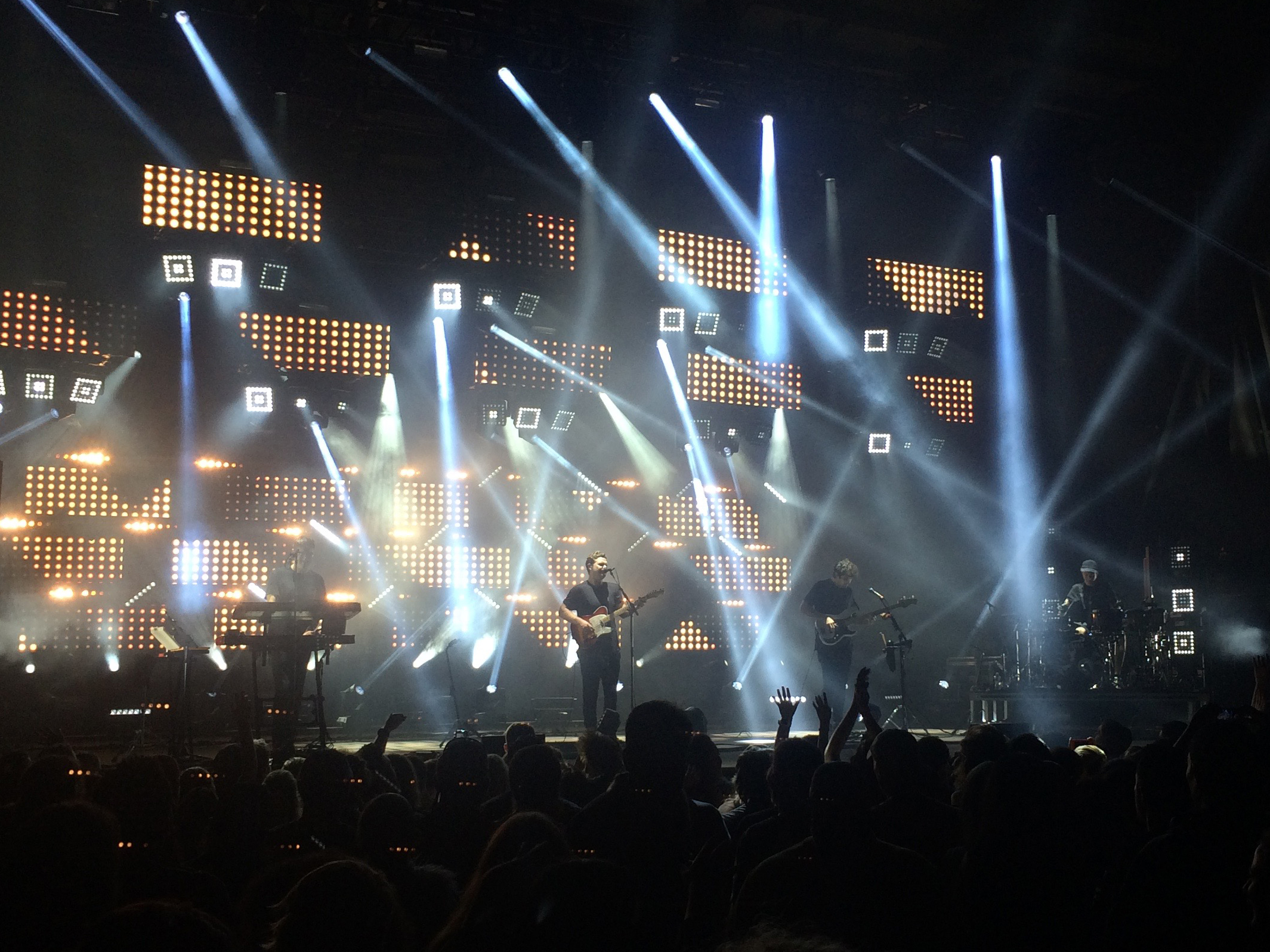 Left to right: Gus Unger-Hamilton, Joe Newman, Cameron Knight, Thom Green.